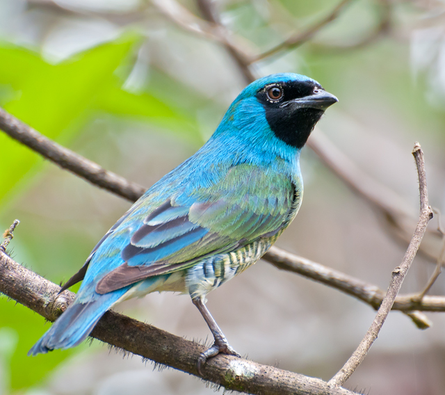 A male Swallow Tanager in Registro, São Paulo, Brazil.